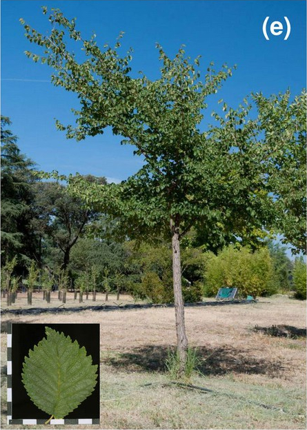 Ulmus minor 'Dehesa de Amaniel'